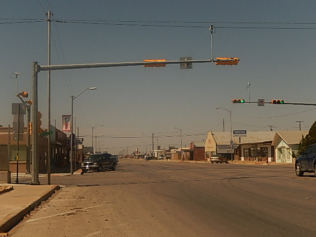 I took photo of downtown scene in Crane, TX, with Nikon camera.